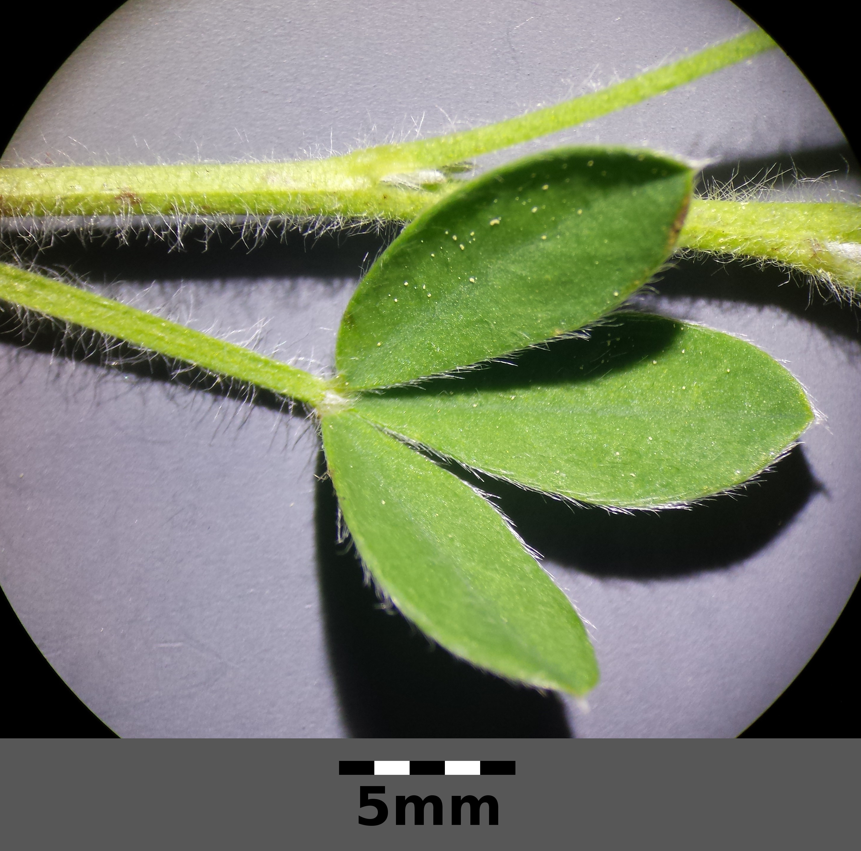 Stipe and leaf with distant hairs Taxonym: Chamaecytisus supinus ss Fischer et al. EfÖLS 2008 ISBN 978-3-85474-187-9 Location: Steinberg near Niederhollabrunn, district Korneuburg, Lower Austria - ca. 375 m a.s.l. Habitat: semi-dry grassland